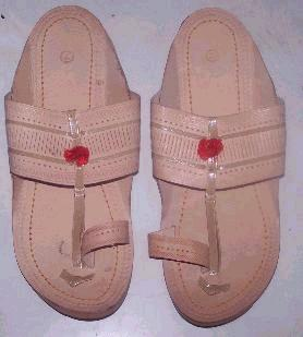 Kolhapuri chappal